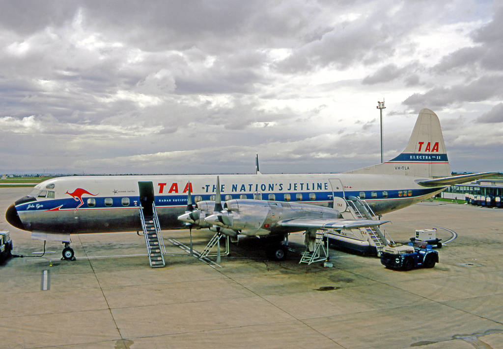 Lockheed L-188A Electra II VH-TLA of Trans Australian Airlines at Melbourne Essendon Airport in 1971